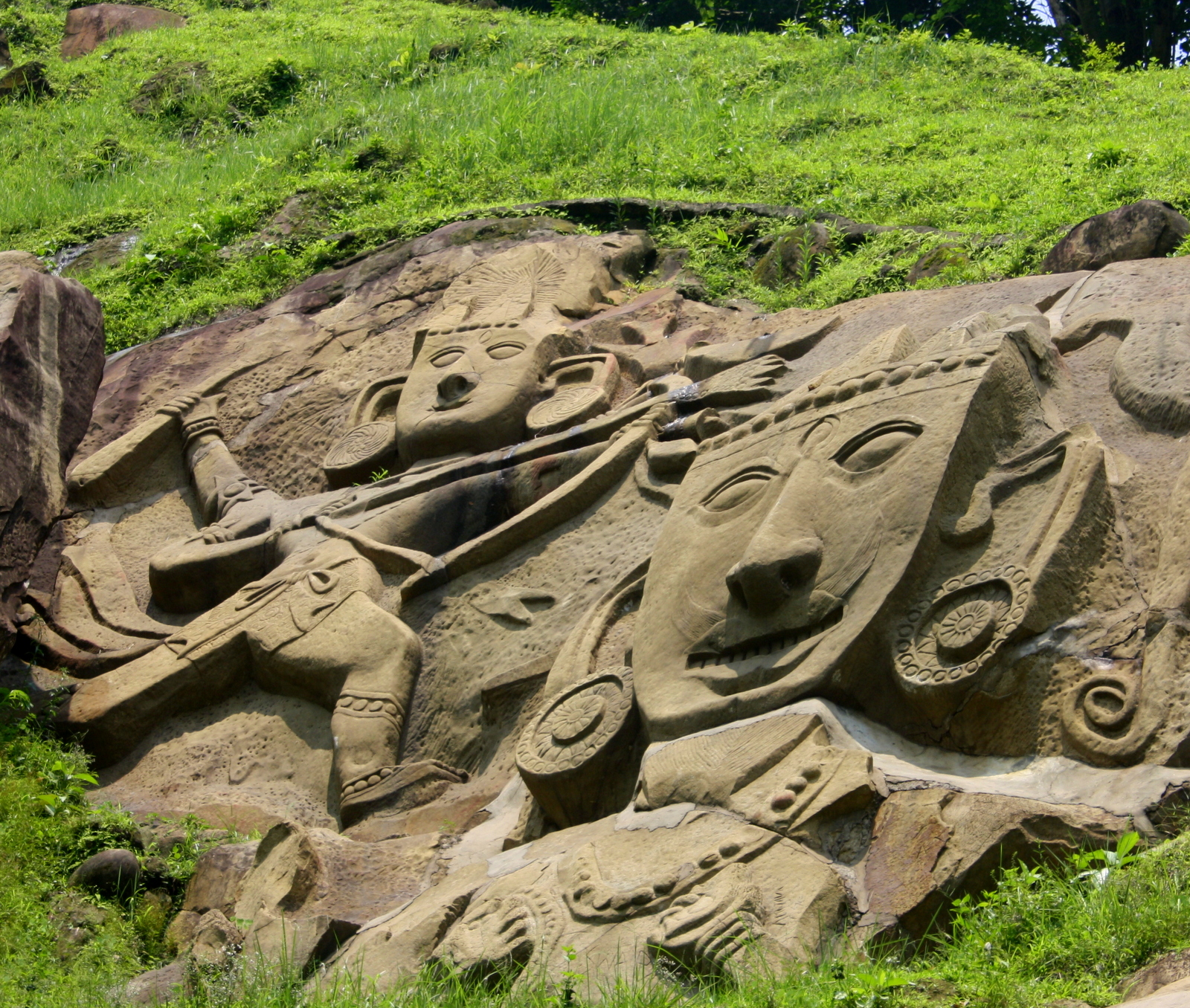 Unakoti ( ঊনকোটি), Tripura, India